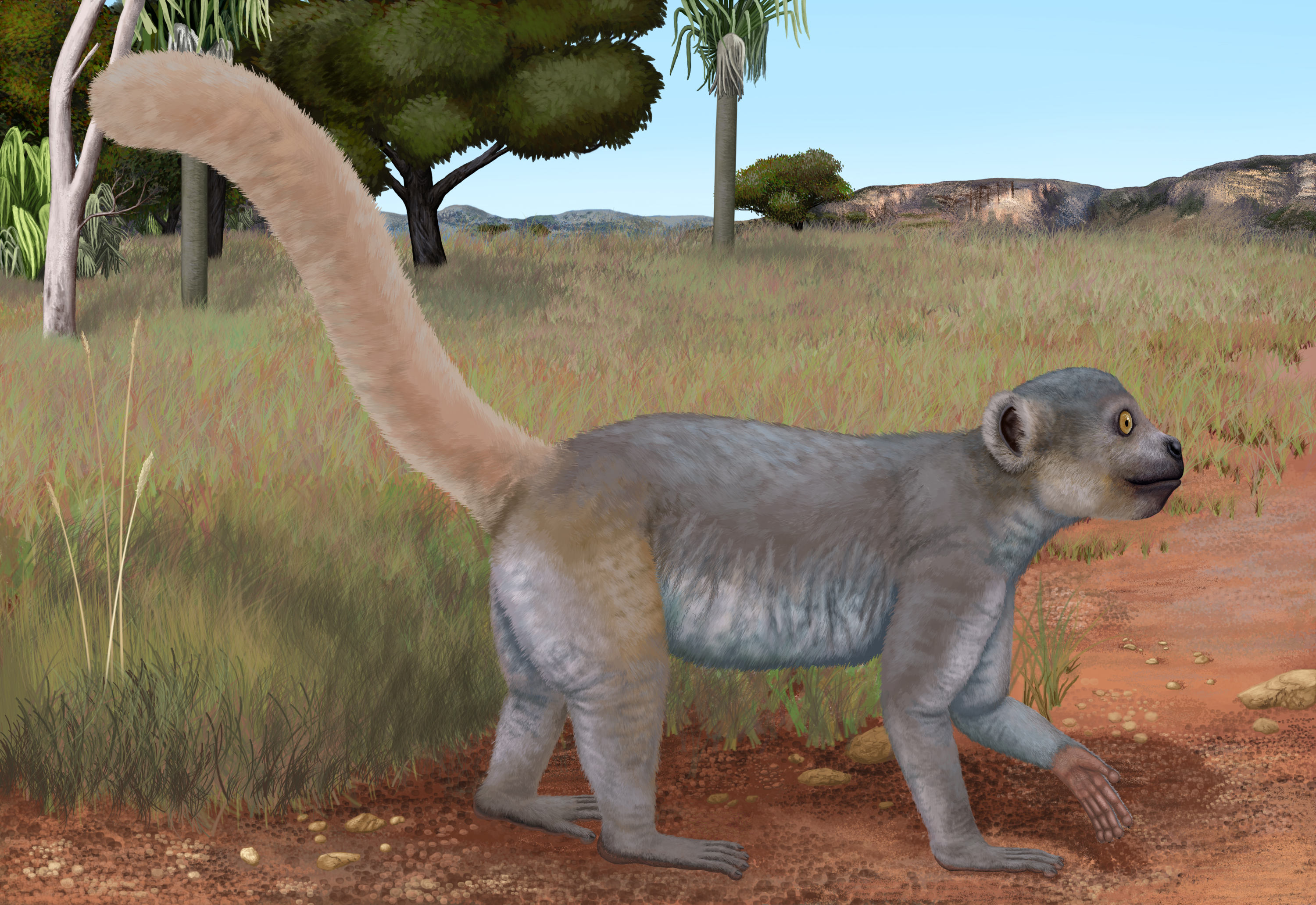 Life restoration of Archaeolemur edwardsi. Based on figures in "The hands and feet of Archaeolemur: metrical affinities and their functional significance" (Journal of Human Evolution 49 (2005): 36-55) and "Quaternary fossil lemurs" (The Primate Fossil Record (2002): 97-121), and correspondence with Dr. Laurie Godfrey.